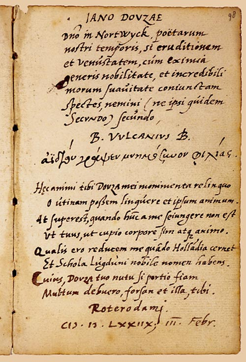 Exhibition Leiden University Library, 2000 Holograph text of poem addressed by Vulcanius to Jan Dousa of Leyden; written at Rotterdam, February 3 1578 text IANO DOVZAE D[omi]no in NortWyck, poëtarum nostri temporis, si eruditionem et venustatem, cum eximia generis nobilitate, et incredibili morum suauitate coniunctam spectes, nemini (ne ipsi quidem Se) secundo, B[onaventura]. V B[rugensis]. Hęc animi tibi D mei monimenta relinquo O utinam poßem linquere et ipsum animum. At superest, quando hũc a me seiungere non est Vt tuus, ut cupio corpore sim atq[ue] animo. Qualis ero reducem me quãdo Hollãndia cernet Et Schola Lugduni nobile nomen habens. Cuius, D tuo nutu si portio fiam Multum debuero, forsan et illa, tibi. Roterodamj. M.D.LXXIIX; iii Febr[uarii].